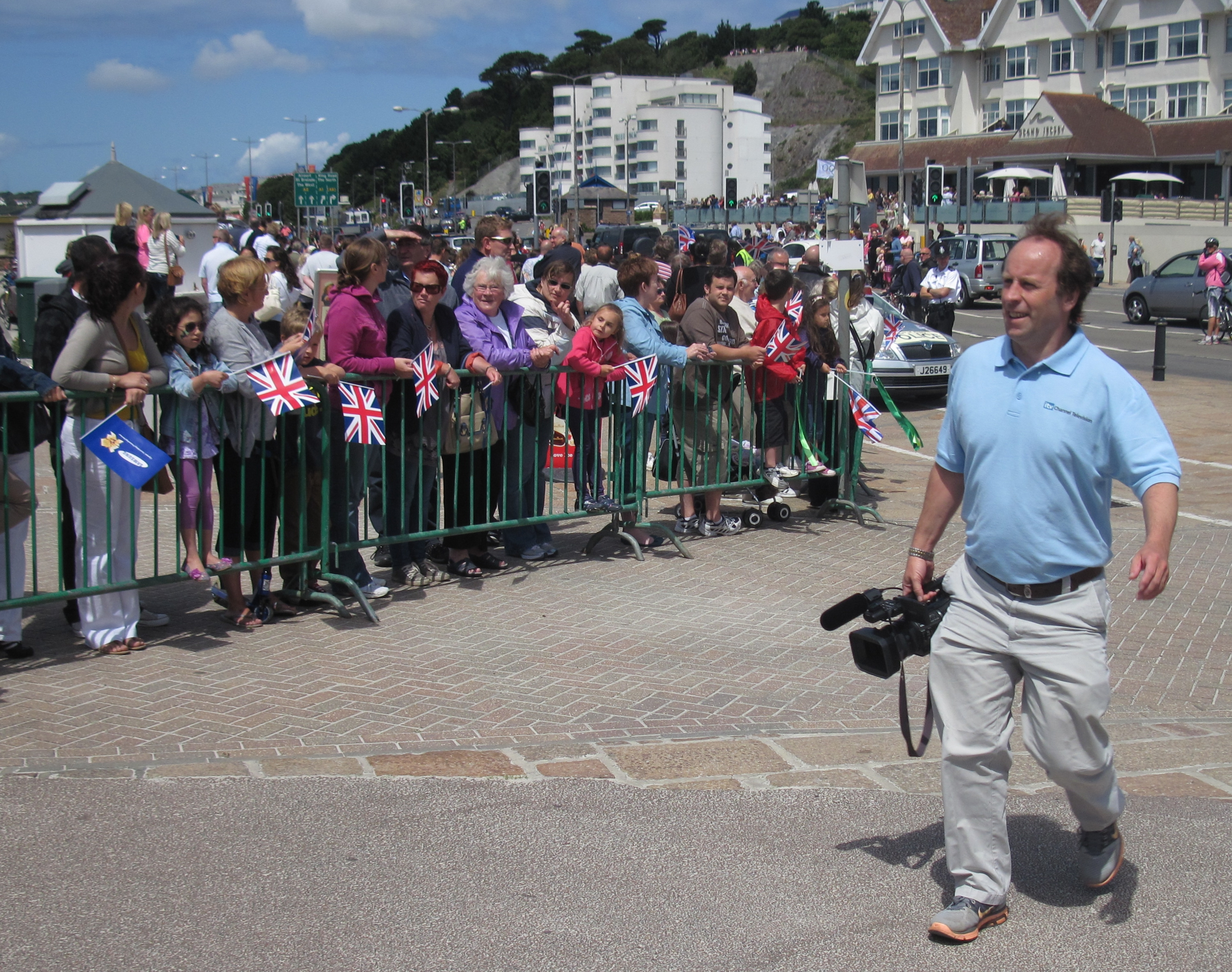 2012 Summer Olympics torch relay in Saint Helier, Jersey, 15 July Nrf: La couôrrie d'la torche Olŷmpique à Saint Hélyi, Jèrri, l'15 dé Juilet 2012